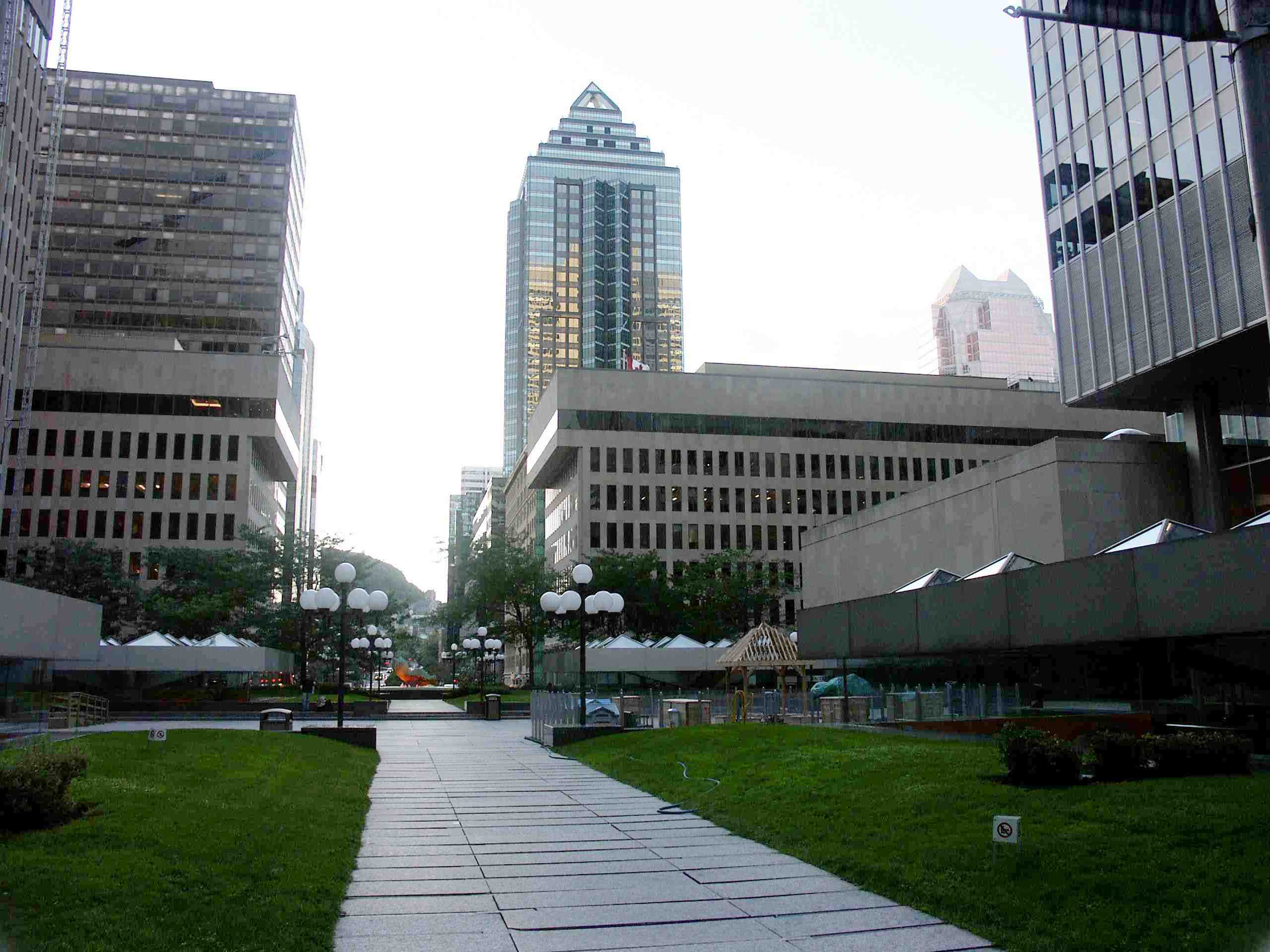 Place Ville-Marie, view of the roof at street level from boulevard René-Lévesque. Notice the greenery and the playground.